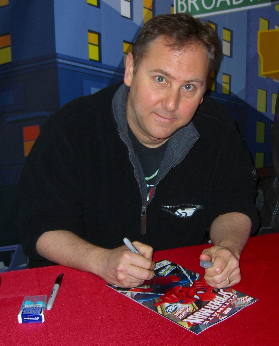 Comics writer/artist Chris Elipoulos signing books just prior to a sneak preview screening of Part 1 of the pilot episode of the Disney XD animated TV series Ultimate Spider-Man, at Midtown Comics Downtown in Manhattan, on March 31, 2012, the day before the series' broadcast TV debut. Eliopoulos is a writer on the series' tie-in comic. This photo was created by Luigi Novi. It is not in the public domain, and use of this file outside of the licensing terms is a copyright violation.